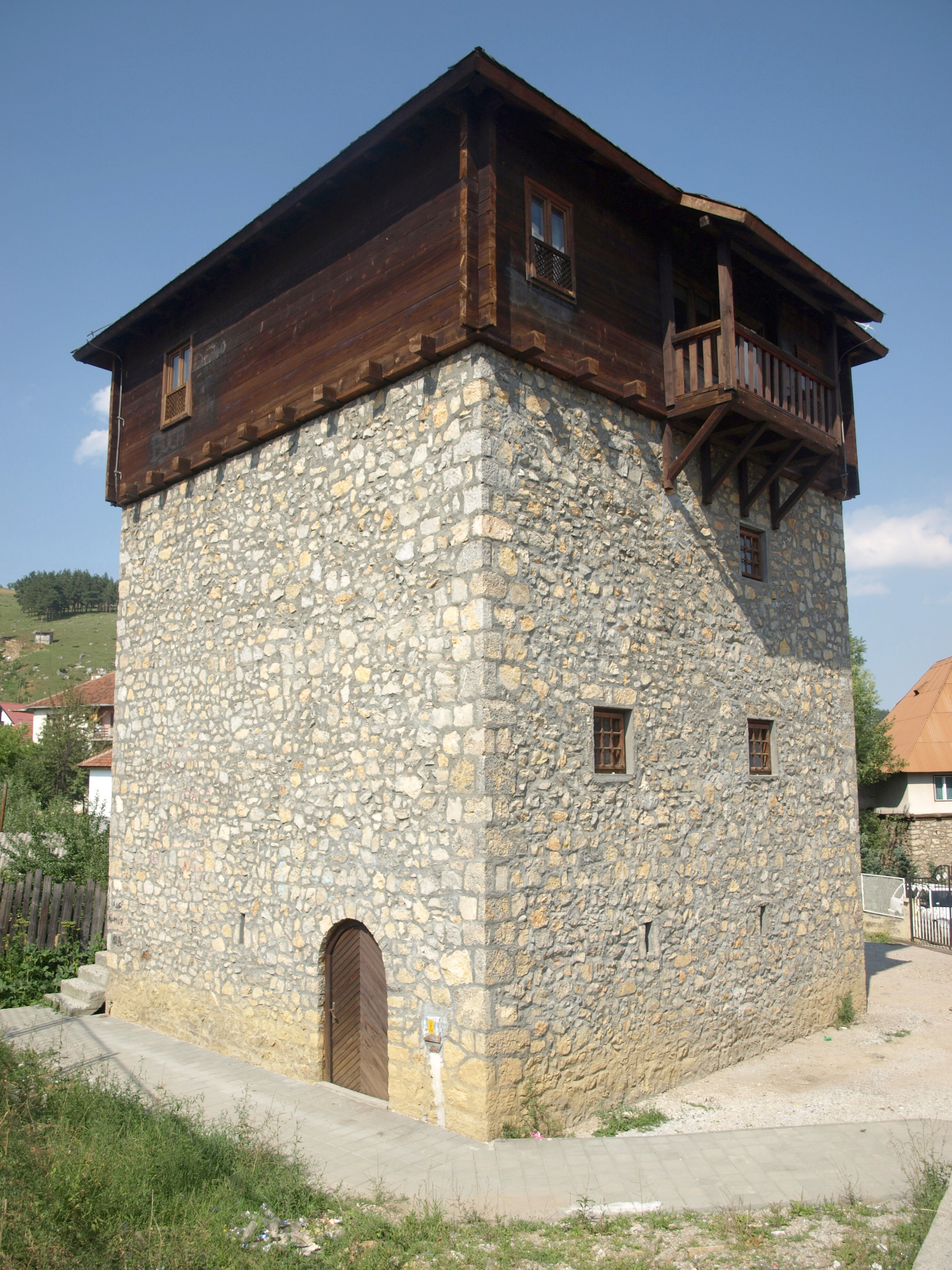 Ganića Kula (tower of the Ganići) in Rožaje, Montenegro